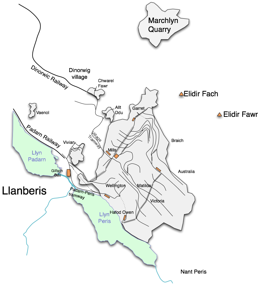 Map of the quarries at Dinorwic, north Wales